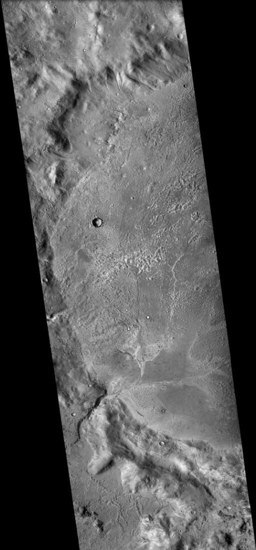 Adams Martian Crater, as seen by ctx